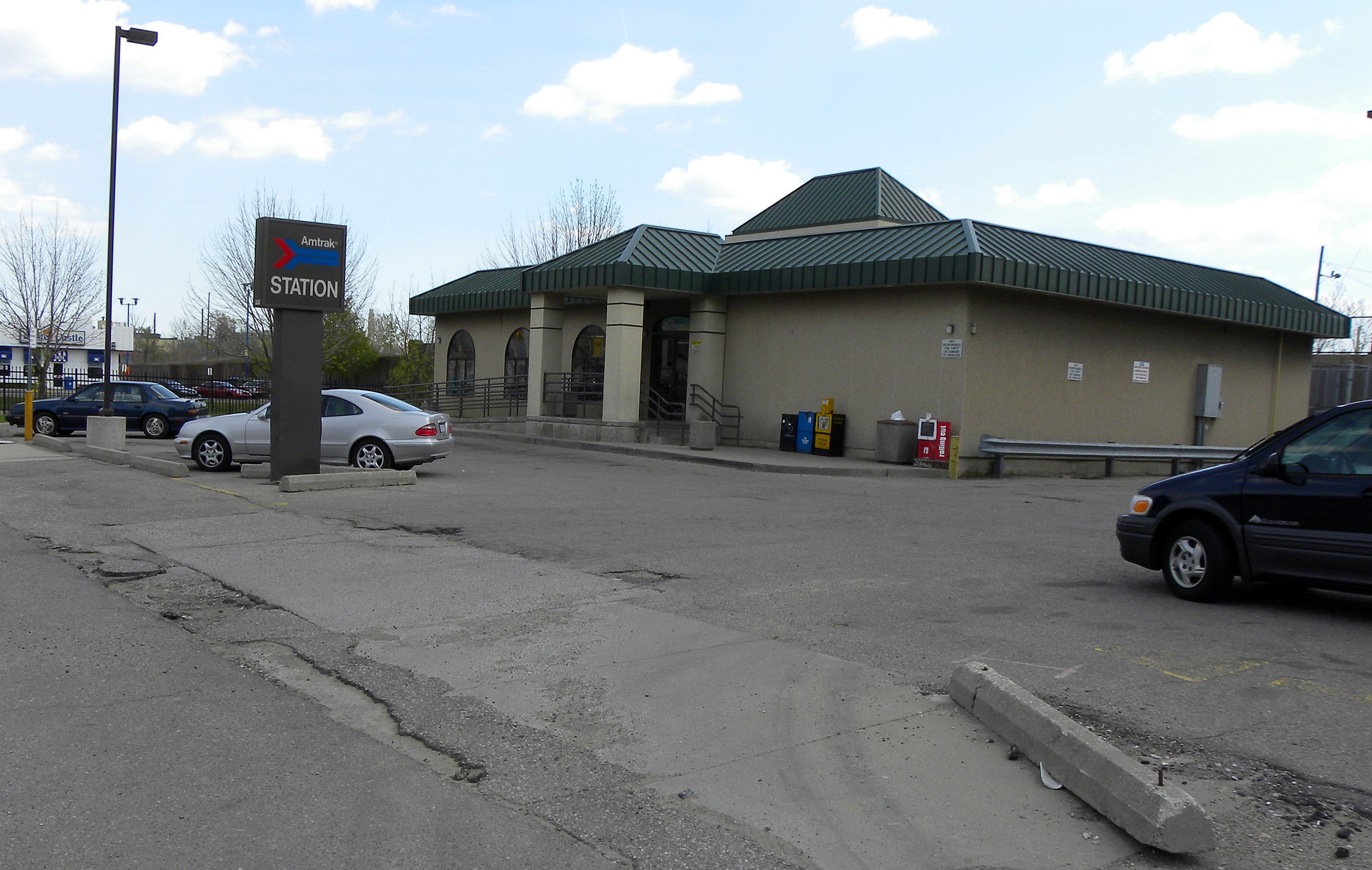 The Amtrak station in Detroit's New Center.